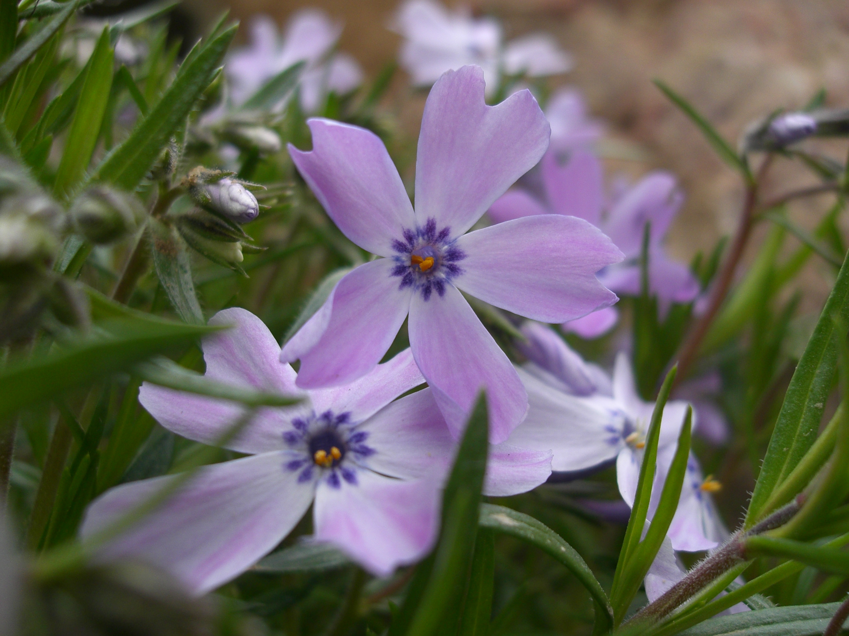 Phlox flower just after blooming.